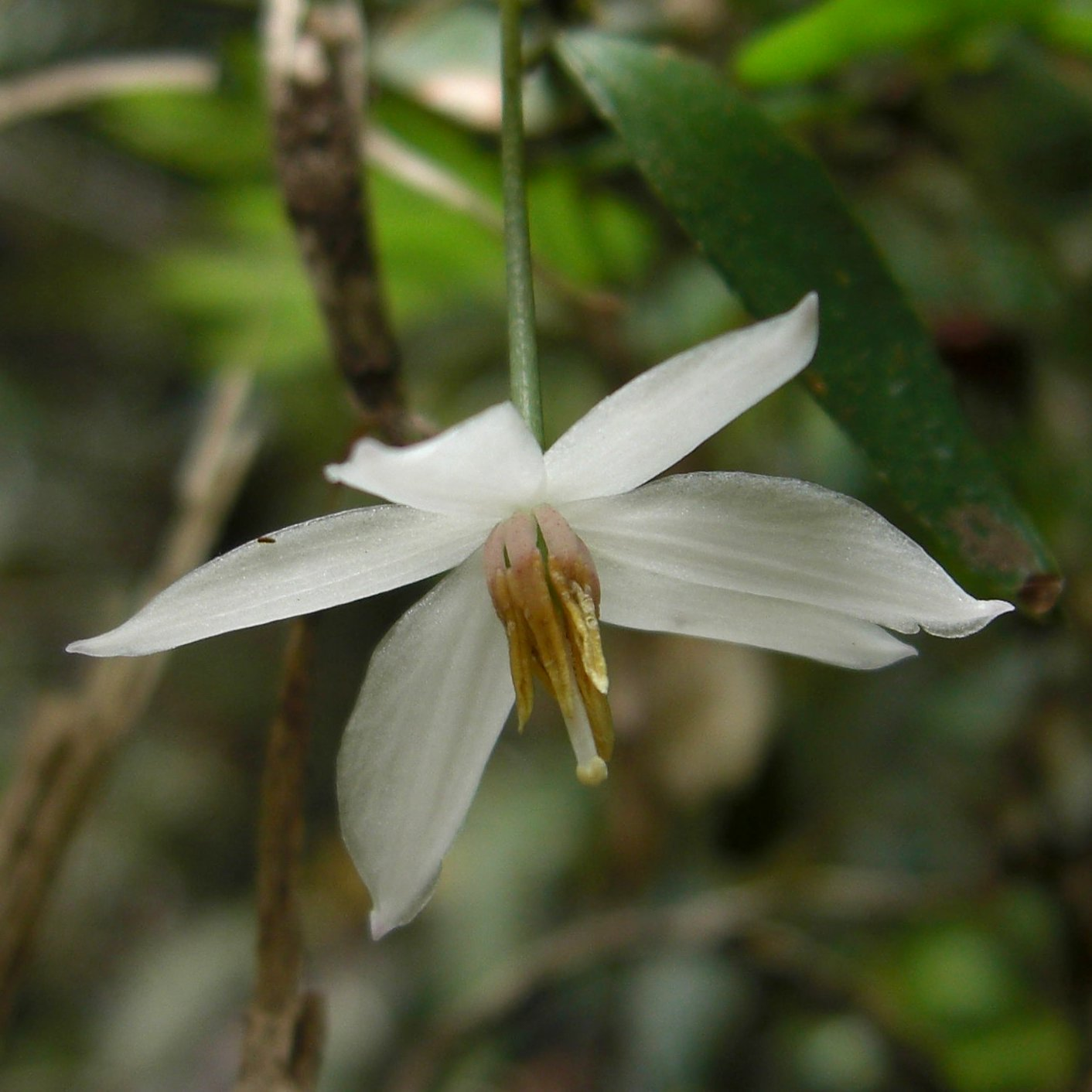 Luzuriaga radicans Ruiz & Pav. 20081207.17 Parque Nacional Huerquehue, Chile There are several common names for this lovely vine: Quilineja, Coral, Azahar -- none of which are readily translatable, probably because they are all native indian names. It is a lily-like vine in the Philesiaceae family.